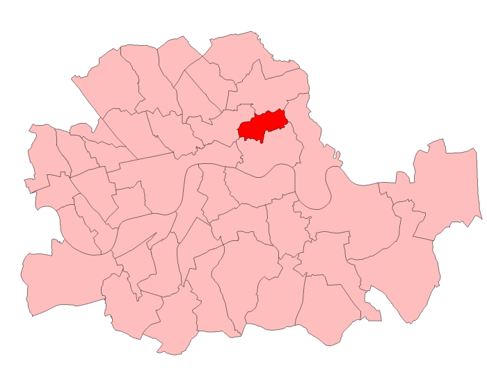 A map of Bethnal Green constituency within the London County Council area, as it existed from 1950 to 1955.